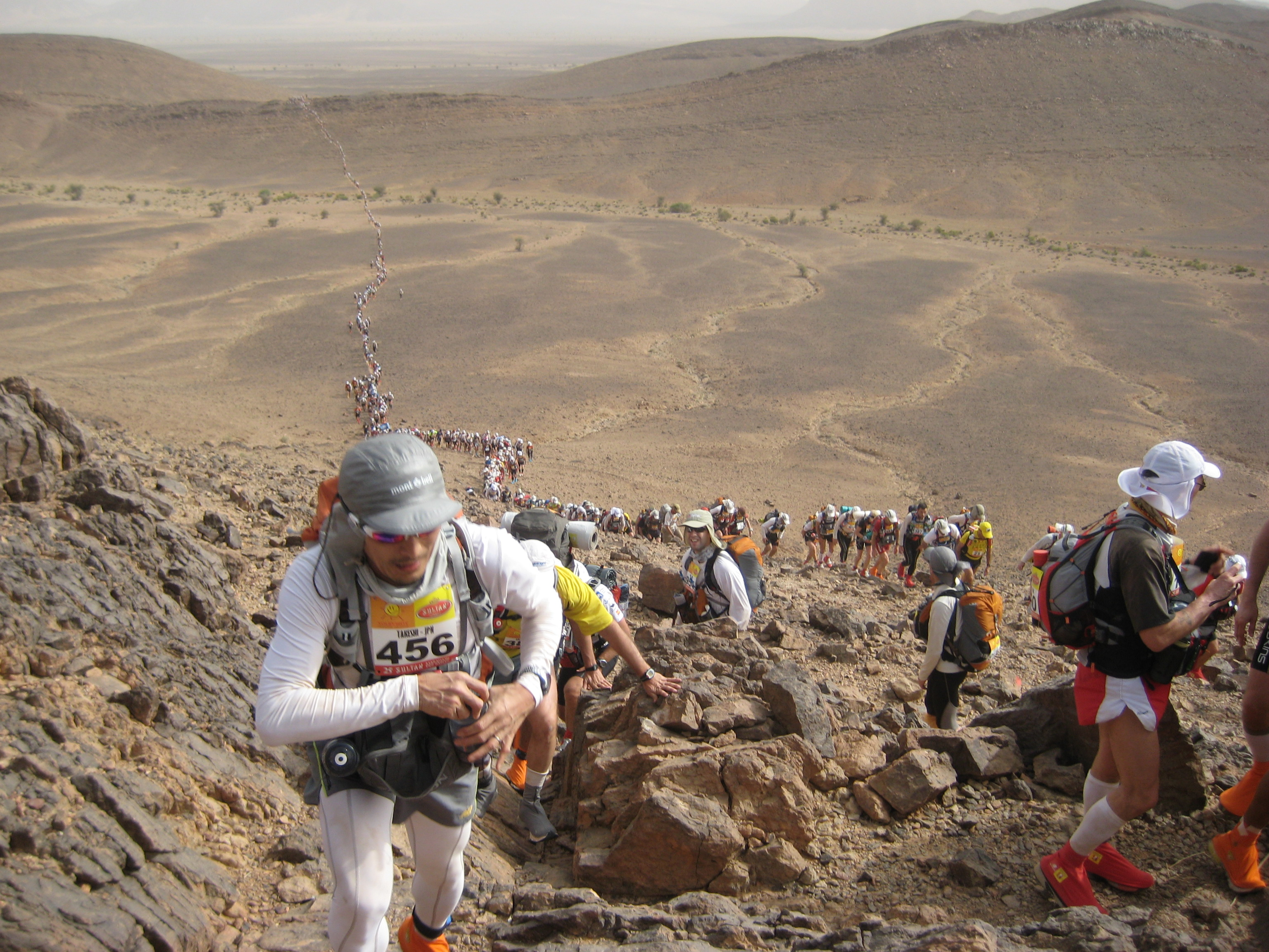 Marathon des Sables 2010